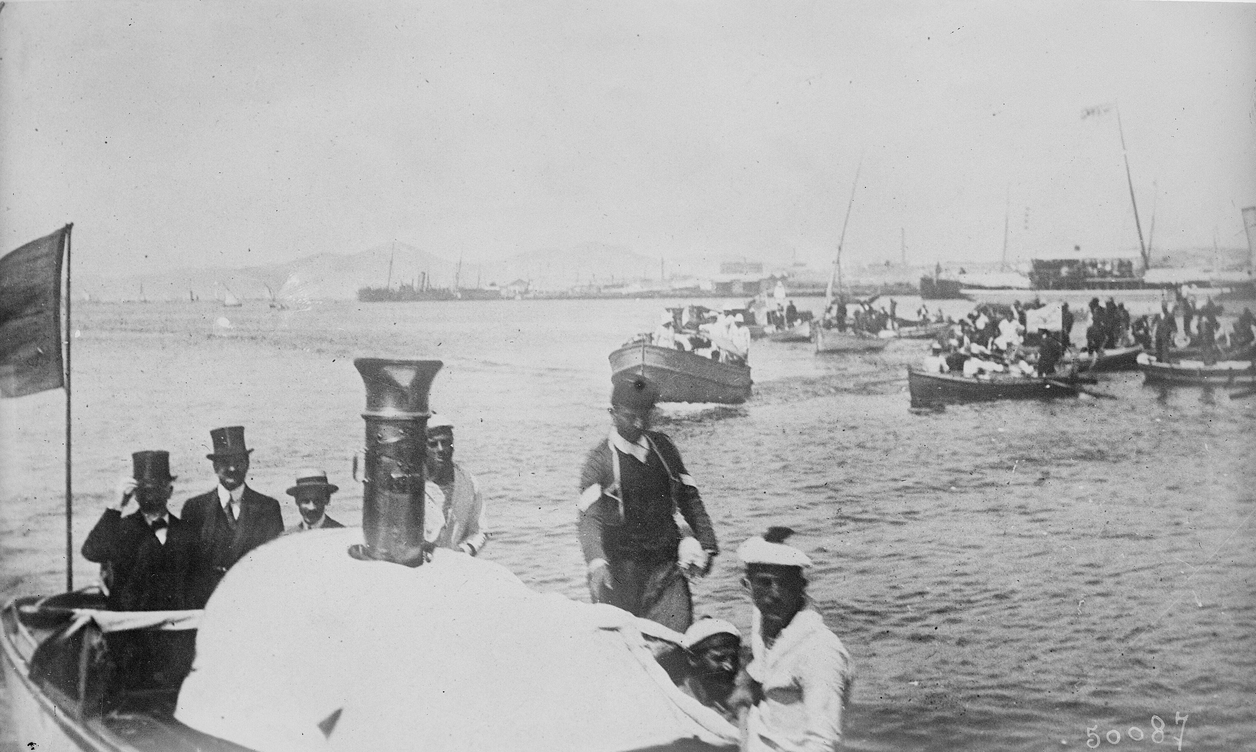 The Greek PM Eleftherios Venizelos returns to Athens on 27 June 1917, after the departure of King Constantine I from the country